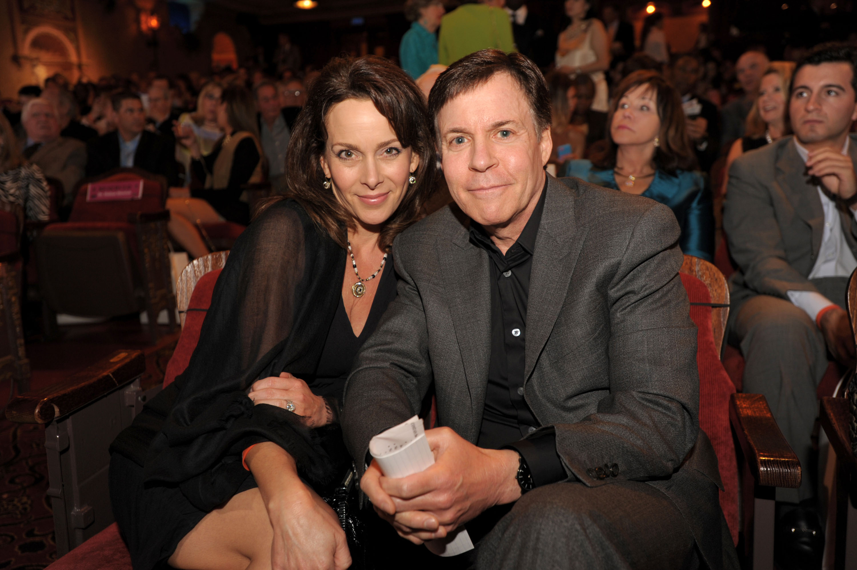 Jill Sutton & Bob Costas at the 2014 Miami International Film Festival presentation of "An Unbreakable bond" Photo by: World Red Eye